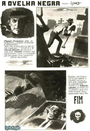 HQ com roteiro e desenho de Lyrio